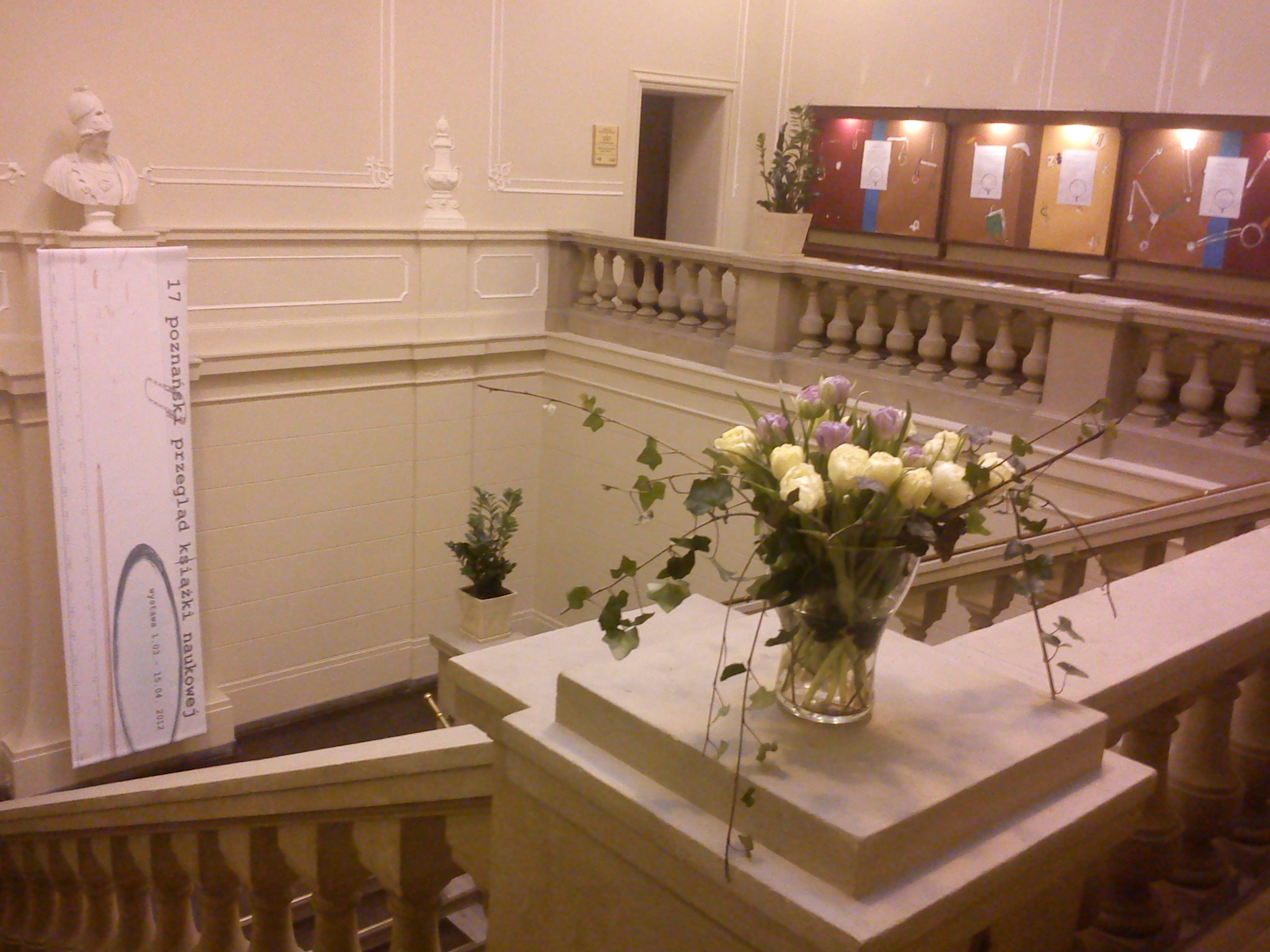 Poznań Scientific Review of Books. Poznań 2012. University Library.